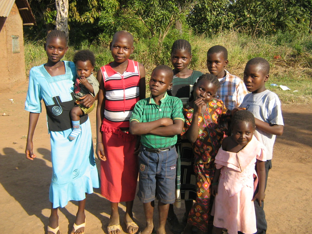 Children in Yambio, West Equatorial South Sudan